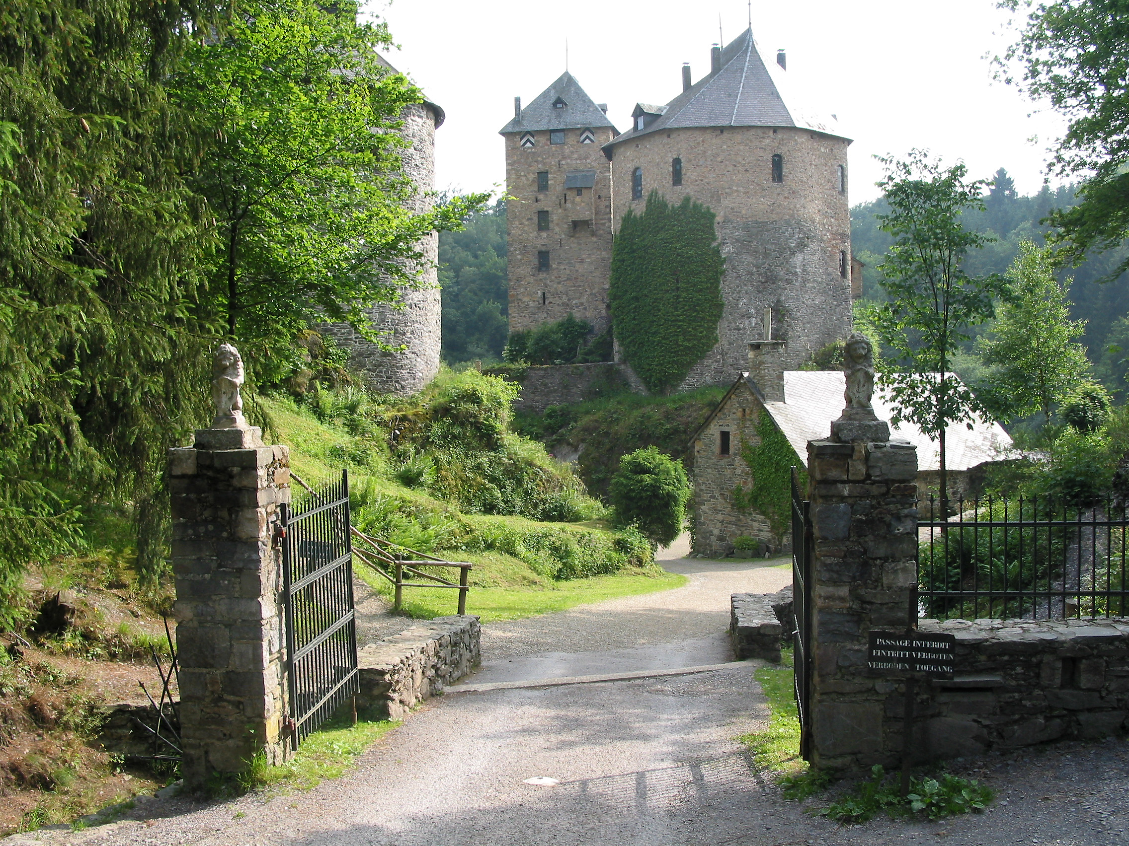 Waimes (Belgium), Reinhardstein castle (1354).